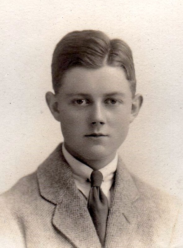 W. Ross Ashby, c. 1924, aged about 21. Photographed during his time at Sidney Sussex College in Cambridge, England